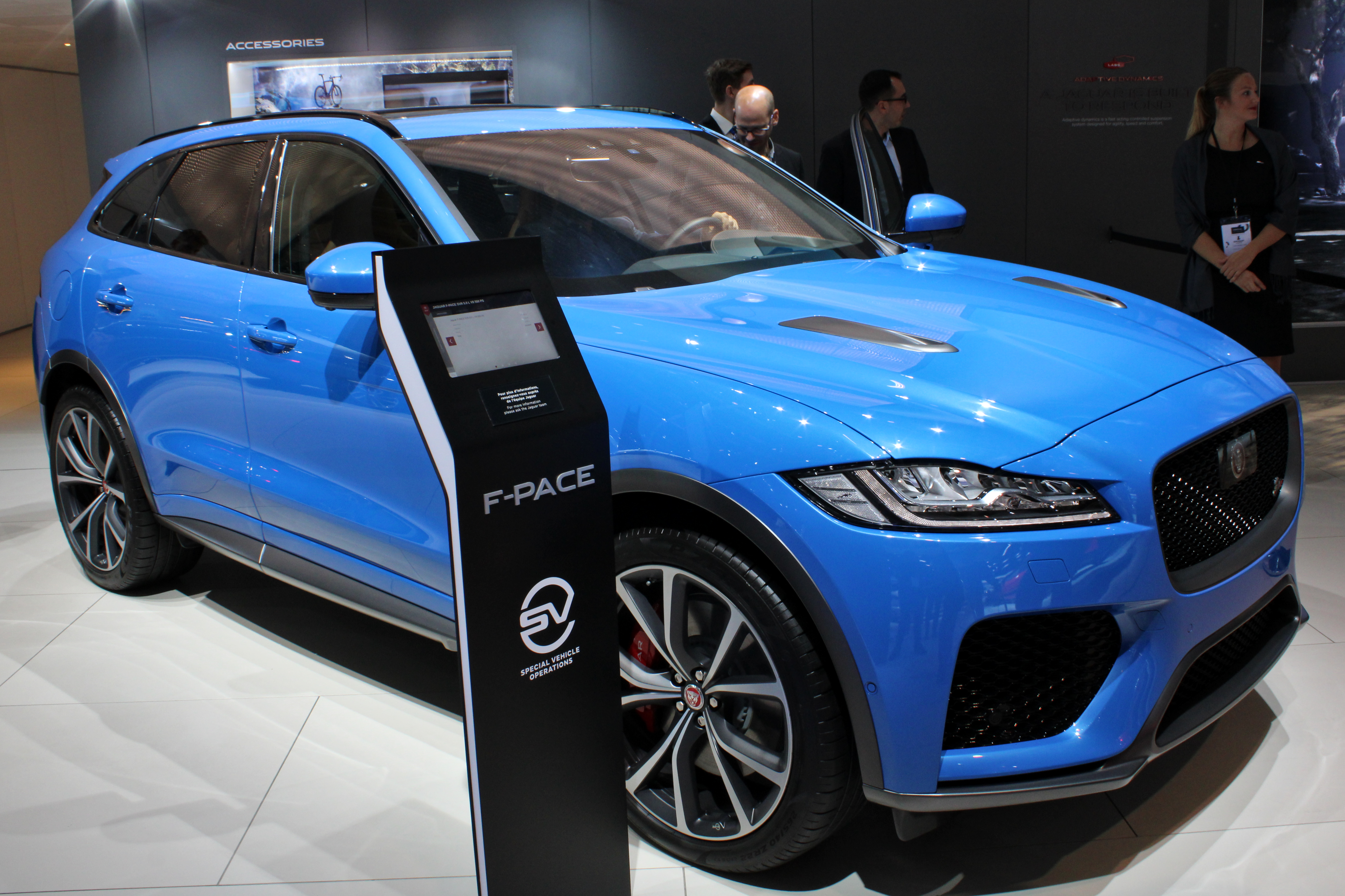 Jaguar F-Pace SVR at Paris Motor Show 2018